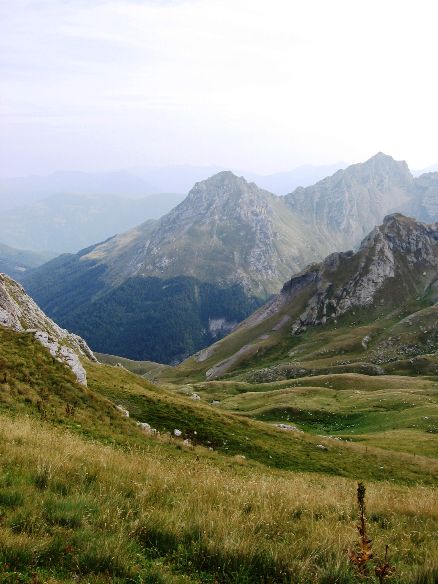 Author: MatriX - Mount Korab, the highest mountain in the Republic of Macedonia and Albania